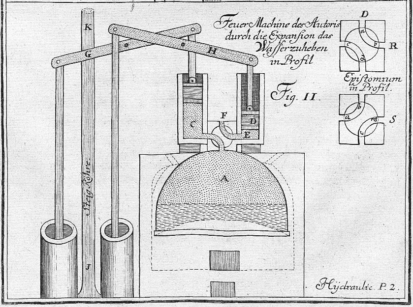 Jacob Leupold Steam engine 1720. First design of a high pressure steam engine from his book Theatri Machinarum Hydraulicarum II.